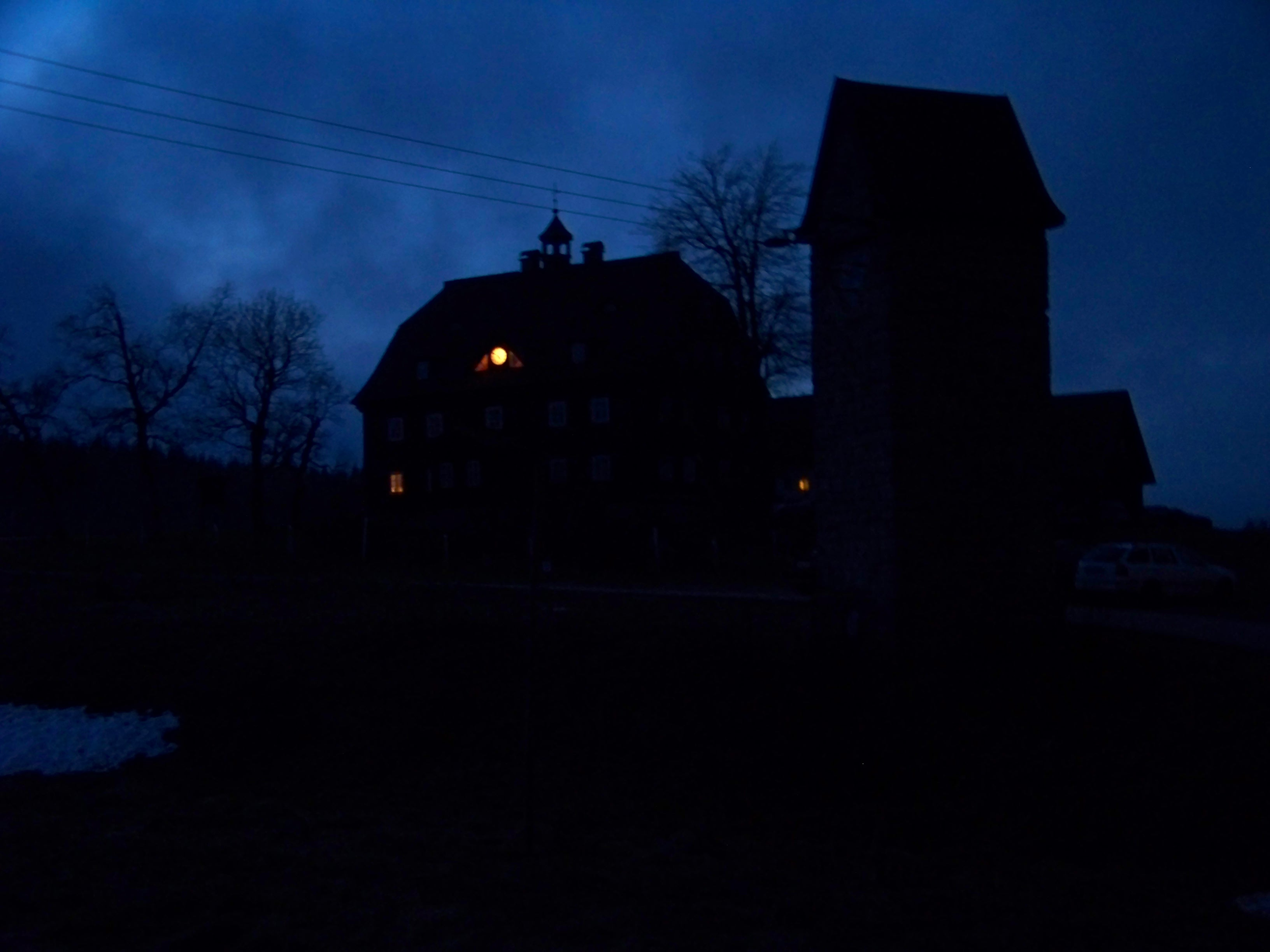 Kořenov-Jizerka, Jablonec nad Nisou District, Liberec Region, the Czech Republic.